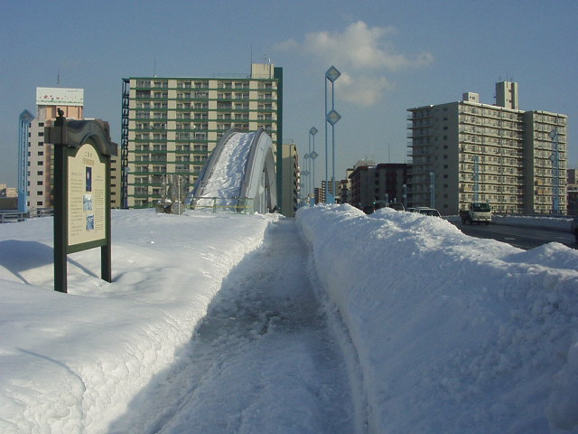 Horohira Bridge of Toyohira River. Chūō ward, Sapporo, Hokkaidō prefecture, Japan. Eastward from the left bank side.